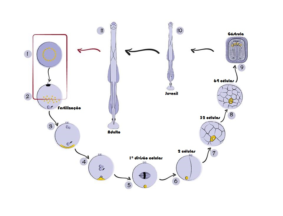 A scheme of Chaetognatha's development